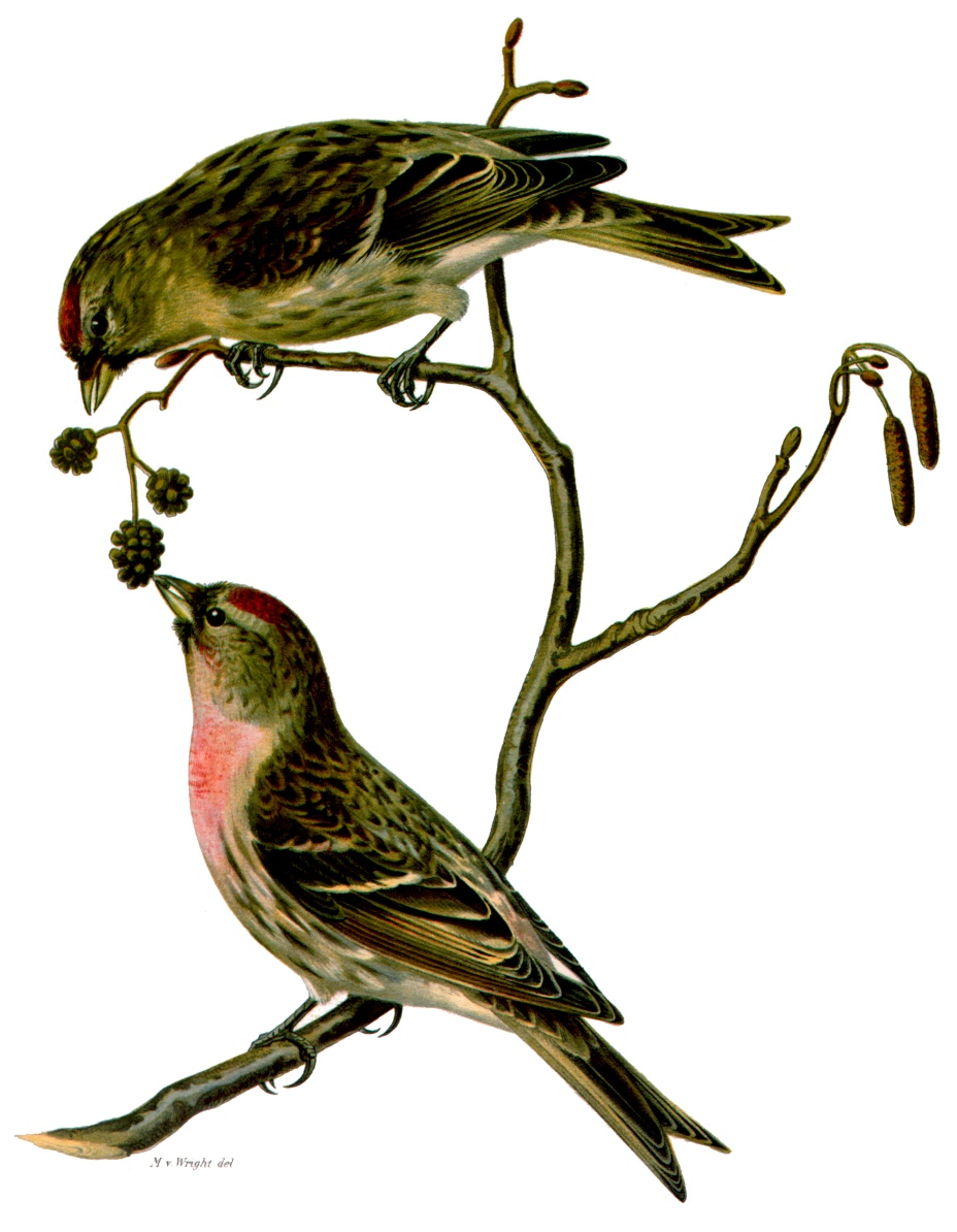 Carduelis flammea Common Redpoll